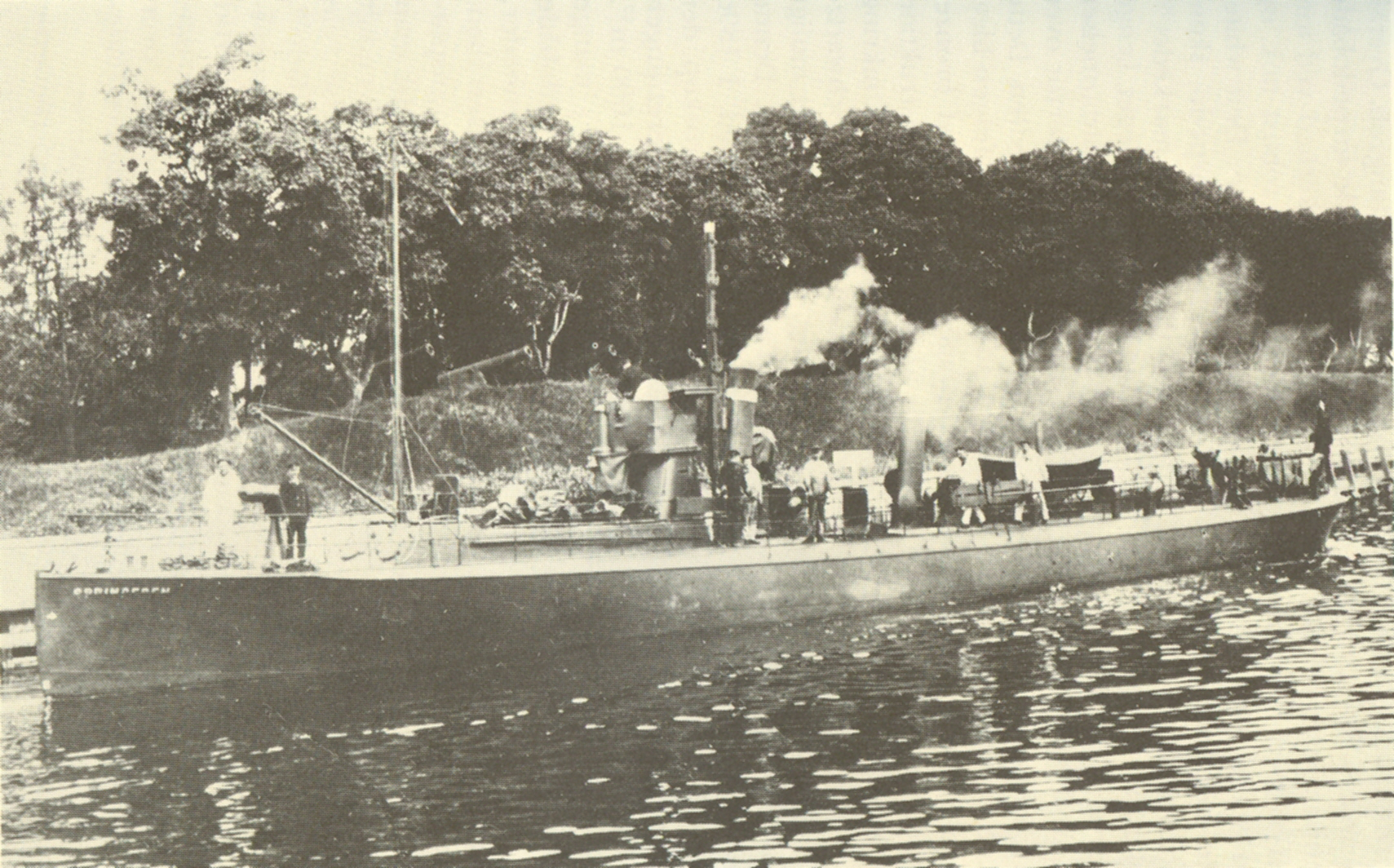 Danish Torpedo Boat Springeren, built 1891. Photo taken at the Coastal Battery Sixtus in Copenhagen Harbour.